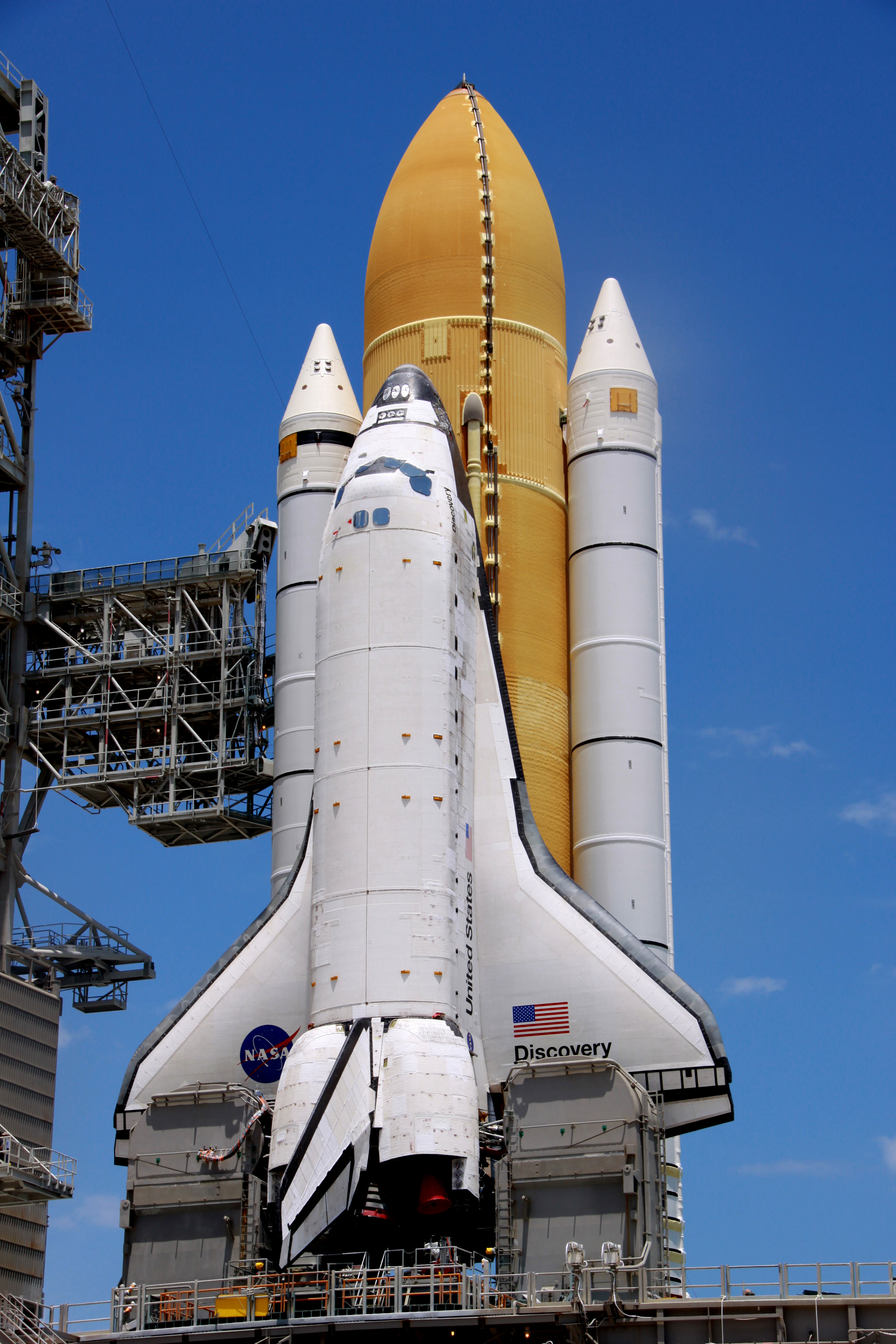 CAPE CANAVERAL, Fla. – A closeup of space shuttle Endeavour after its arrival on Launch Pad 39A at NASA's Kennedy Space Center in Florida. Traveling from the Vehicle Assembly Building, the shuttle took nearly 12 hours on the journey as technicians stopped several times to clear mud from the crawler's treads and bearings caused by the waterlogged crawlerway. First motion out of the VAB was at 2:07 a.m. EDT Aug. 4. Rollout was delayed approximately 2 hours due to lightning in the area. Discovery's 13-day flight will deliver a new crew member and 33,000 pounds of equipment to the International Space Station. The equipment includes science and storage racks, a freezer to store research samples, a new sleeping compartment and the COLBERT treadmill. Launch of Discovery on its STS-128 mission is targeted for late August.